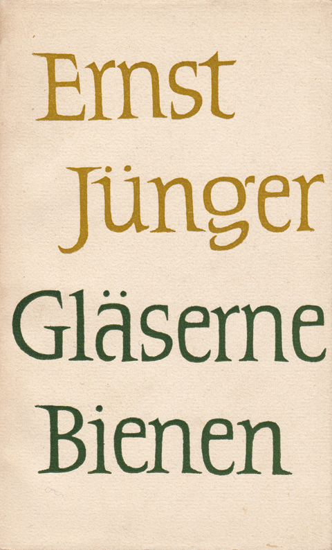 Front cover of first edition of Ernst Jünger's Gläserne Bienen (The Glass Bees)